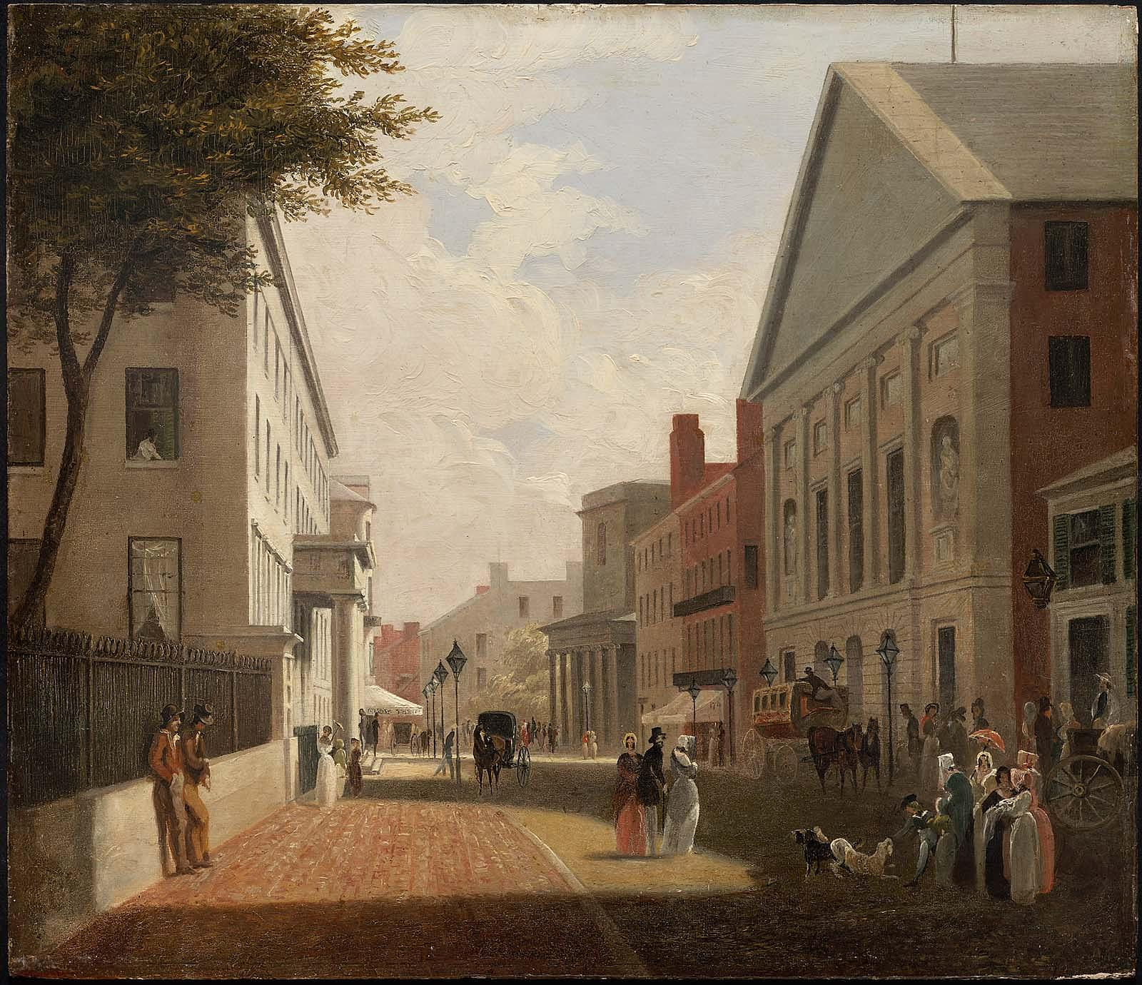 Tremont Street, Boston. about 1843. Philip Harry, American (born in England), 1843–1860. 34.92 x 40.96 cm (13 3/4 x 16 1/8 in.) Oil on panel. Museum of Fine Arts, Boston